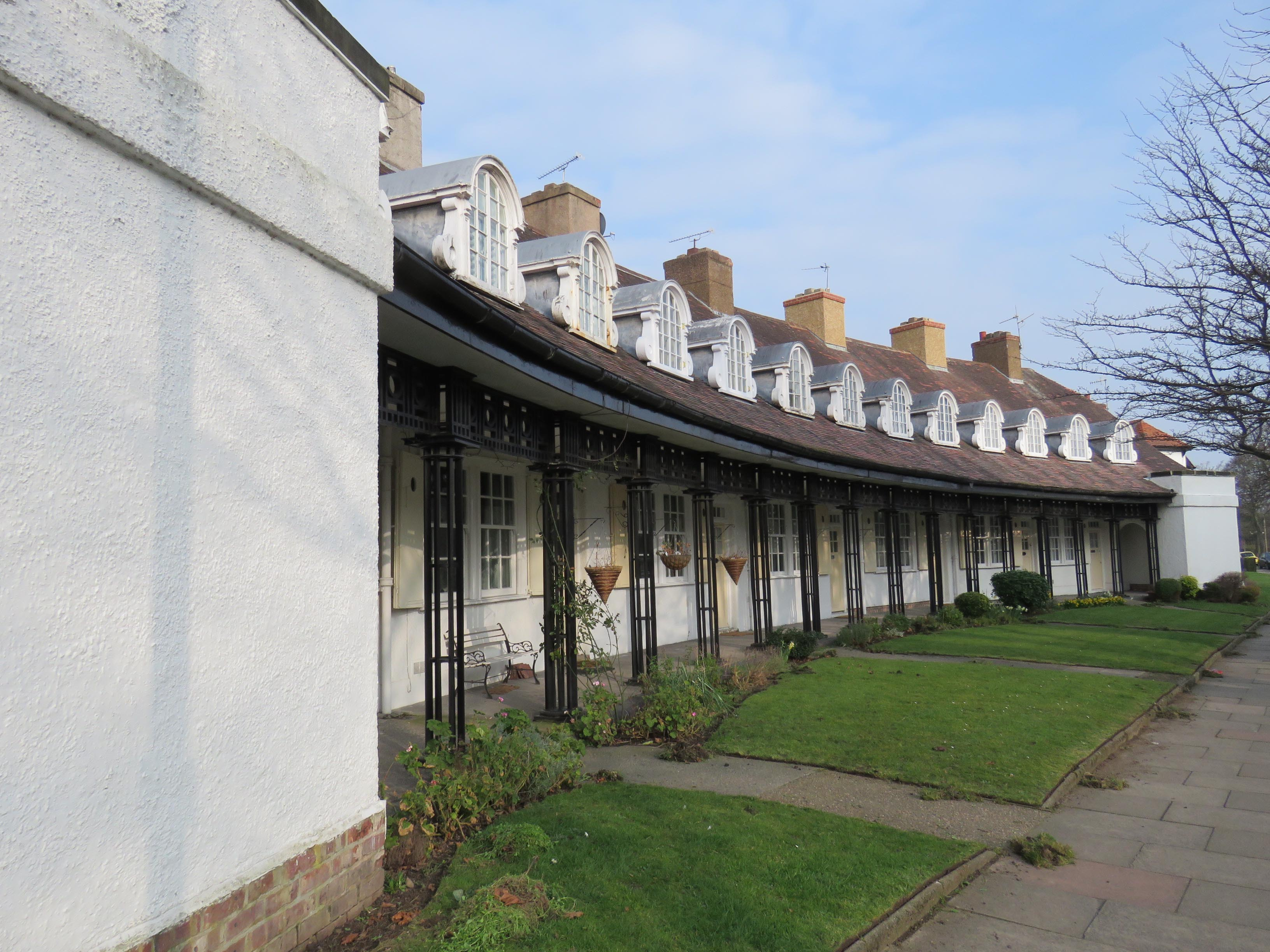 Houses in a village created by Lord Lever, owner of Unilever, for his workers